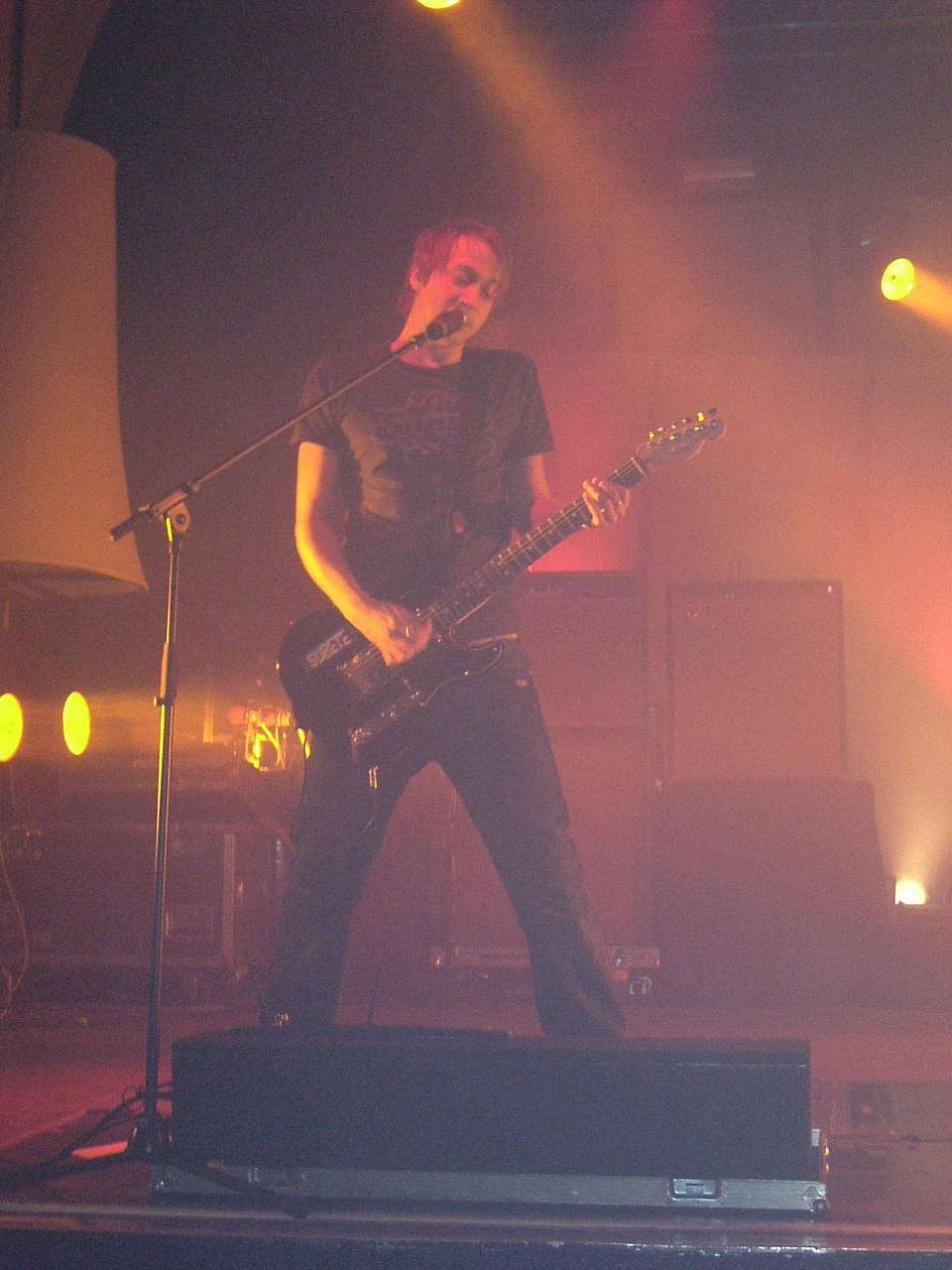 Simon Triebel, guitarist of Juli - by Steffen Löwe, 2 March 2007